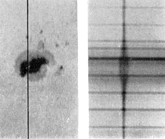 Magnetic field of sunspot (left) splits absorption line according to Zeeman effect (right).